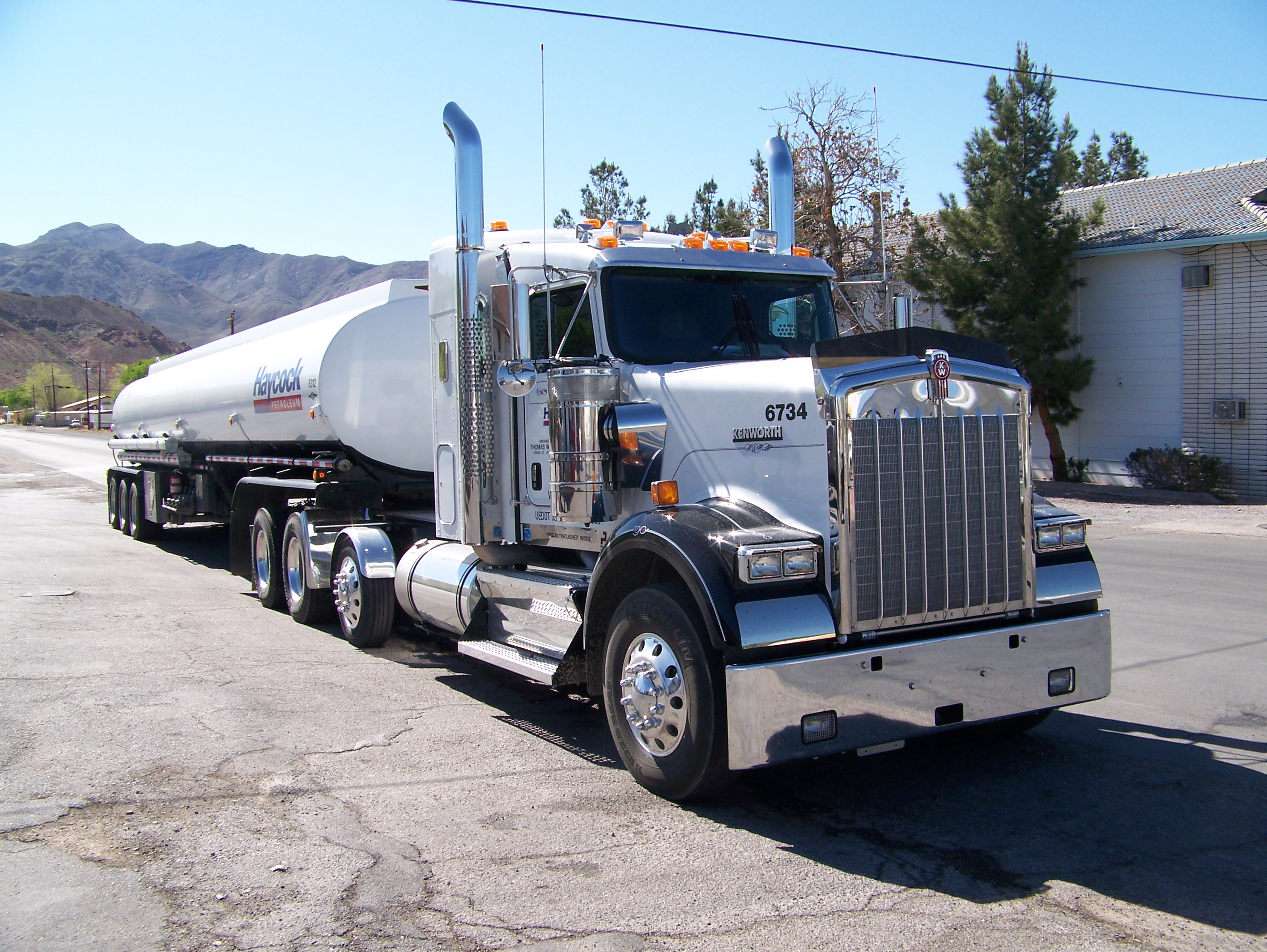 Very nice fuel truck owned by Haycock Petroleum. Seen in Beatty, Nevada